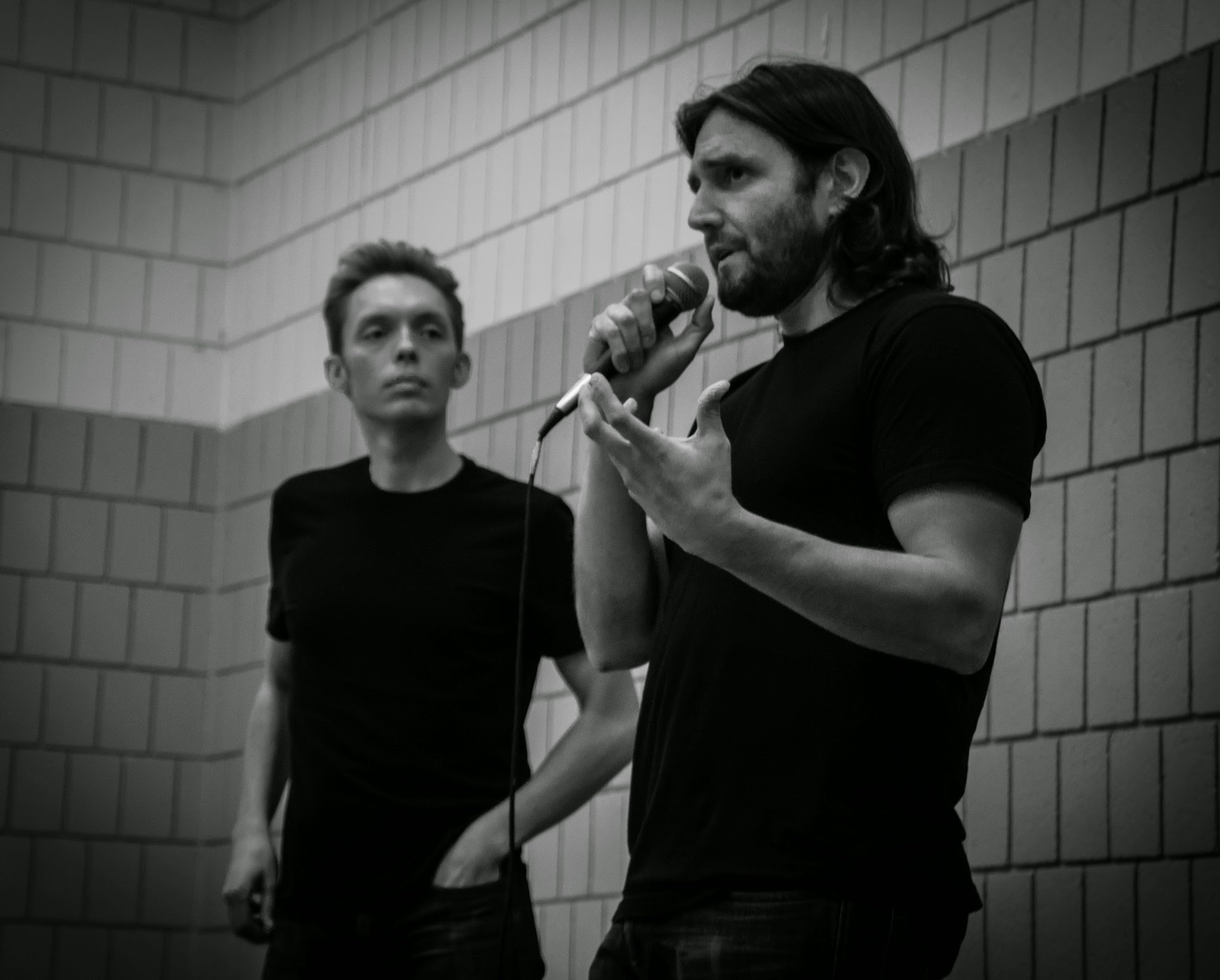 Joshua Fields Millburn & Ryan Nicodemus—The Minimalists—chat with a crowd in Ann Arbor, Michigan, during their 2014 book tour.